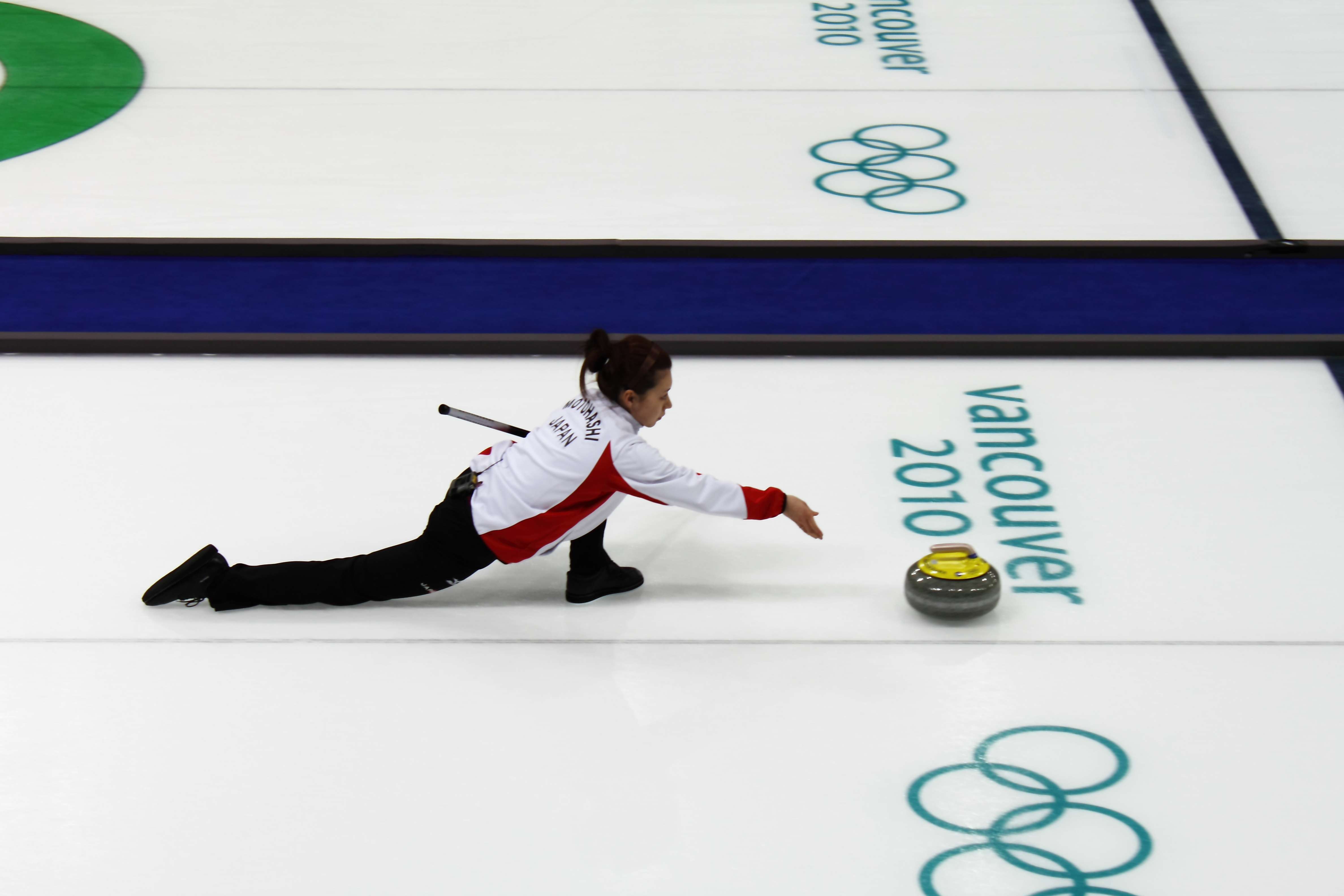 2010 Vancouver Olympic Games - Women's Curling - Preliminary from Vancouver Olympic Centre